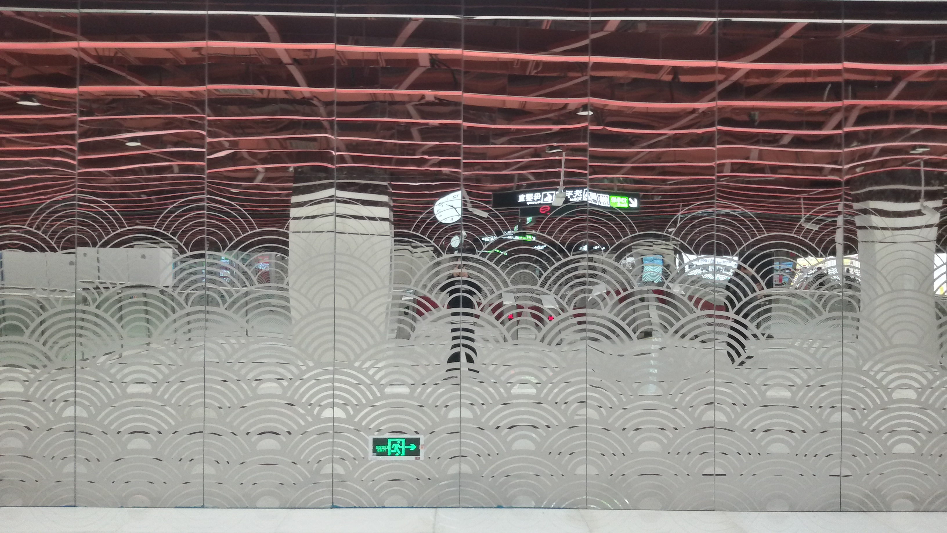 Decoration on the wall at Nanhai God Temple Station in Guangzhou Metro.